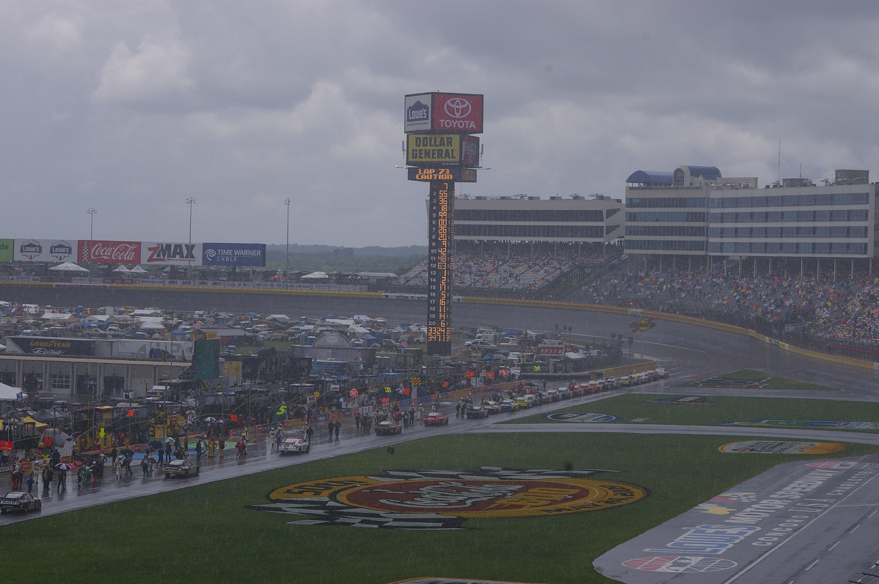 A rainy day at Charlotte Motor Speedway